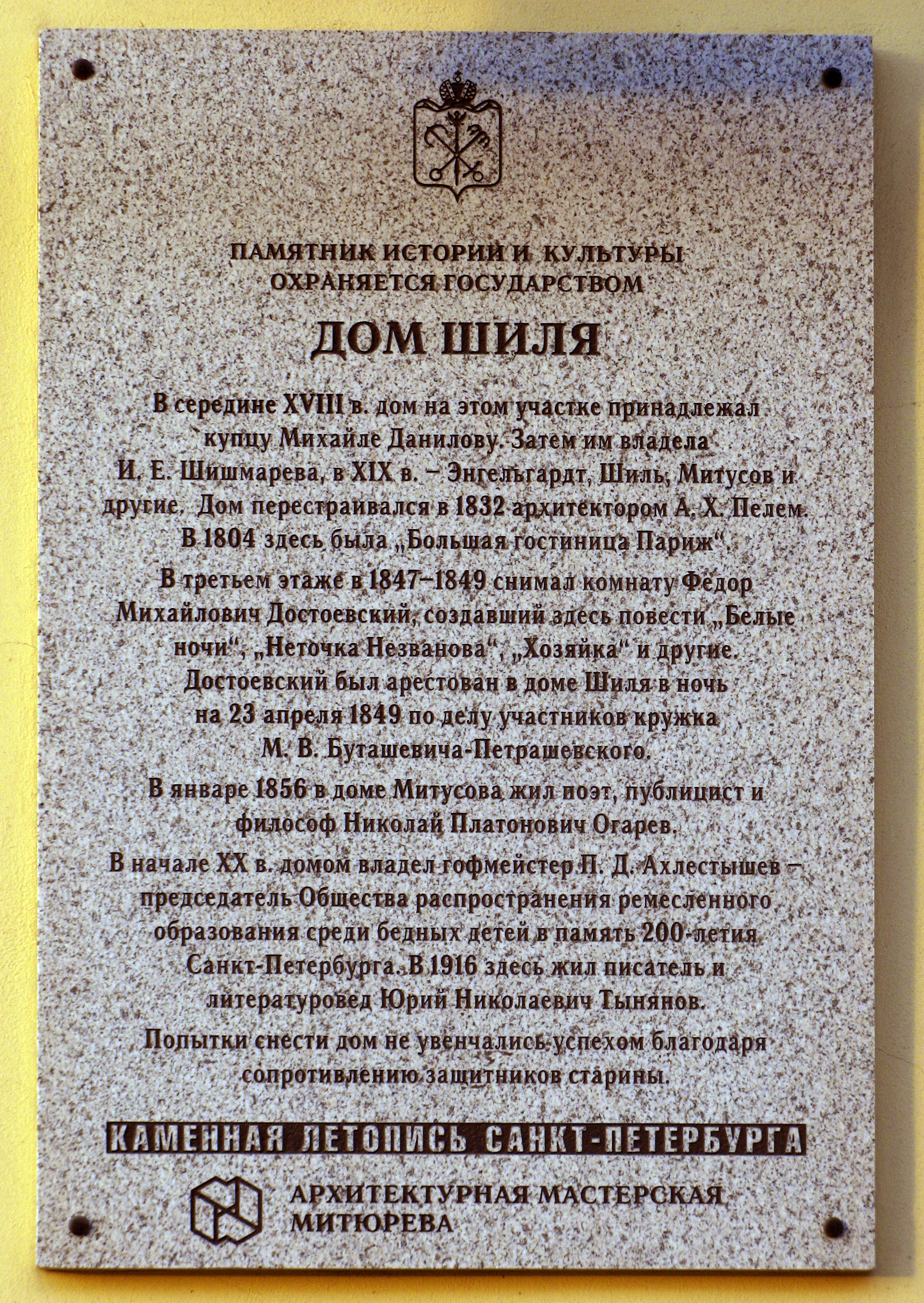 Shilya house. Marble plaques in Saint-Petersburg. Fyodor Mikhailovich Dostoevsky, Nikolay Ogarev, Yury Tynyanov.